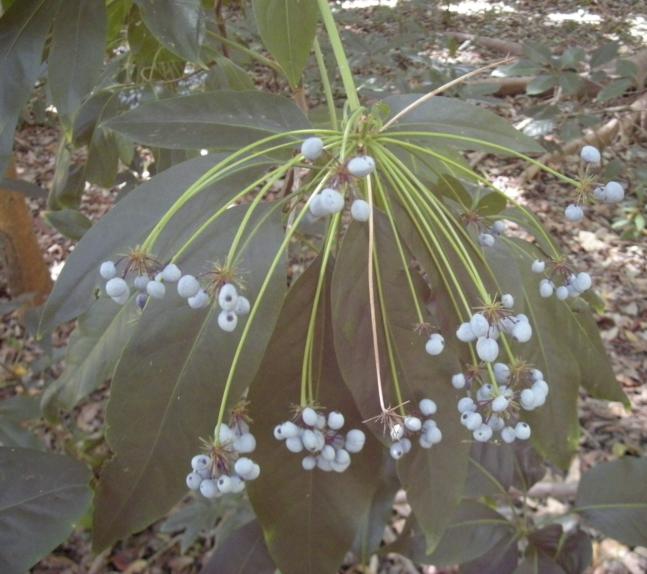 Mackinlaya confusa fruit